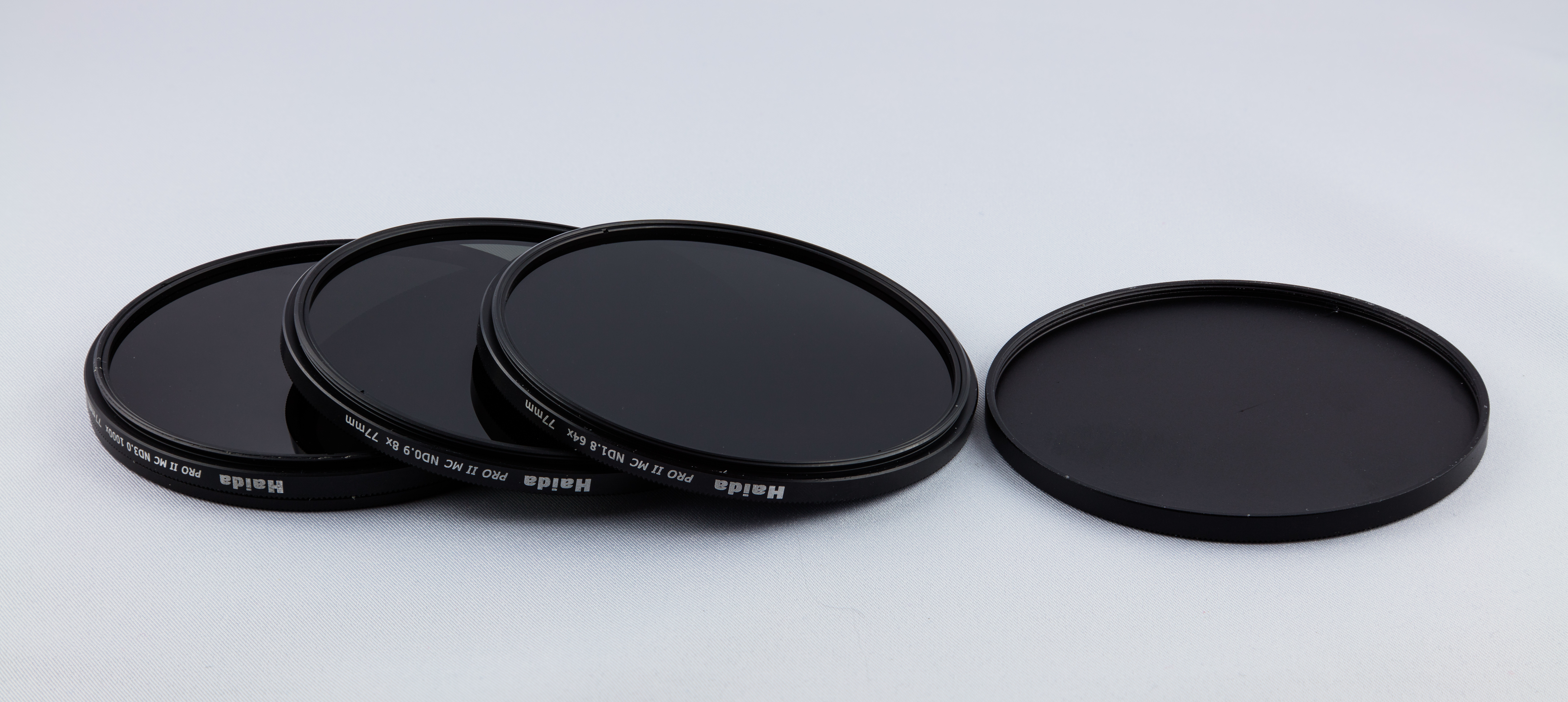 Haida ND filters Pro II MC